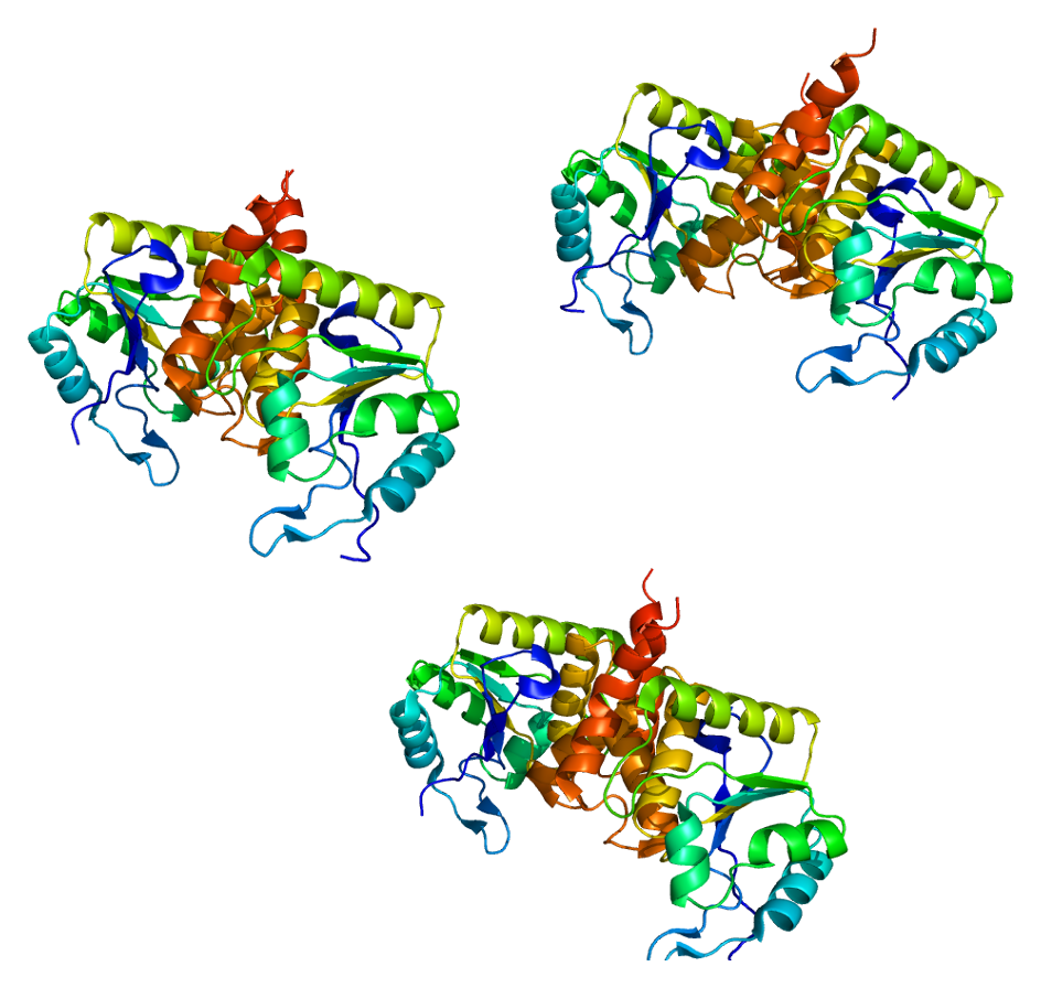 Structure of the CDKN3 protein. Based on PyMOL rendering of PDB 1fpz.